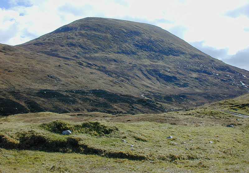 Approaching the Lairig Leacach Taken just after leaving the forest behind. In the distance the track can be seen curving round under Cruach Innse, after it has crossed the Allt Leachdach.